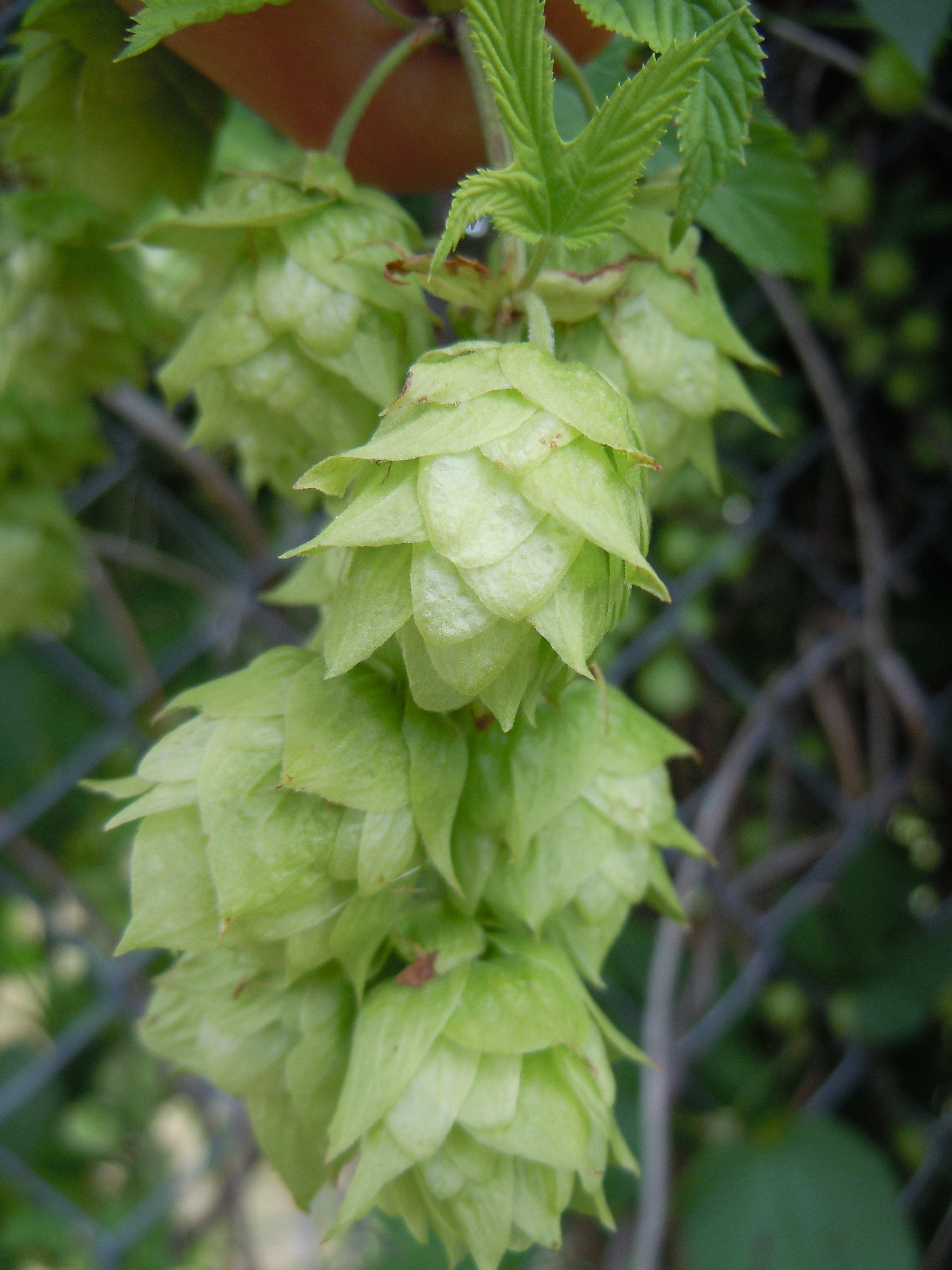 The pistillate catkins enlarge by late summer to form a conspicuous cone-like structure.